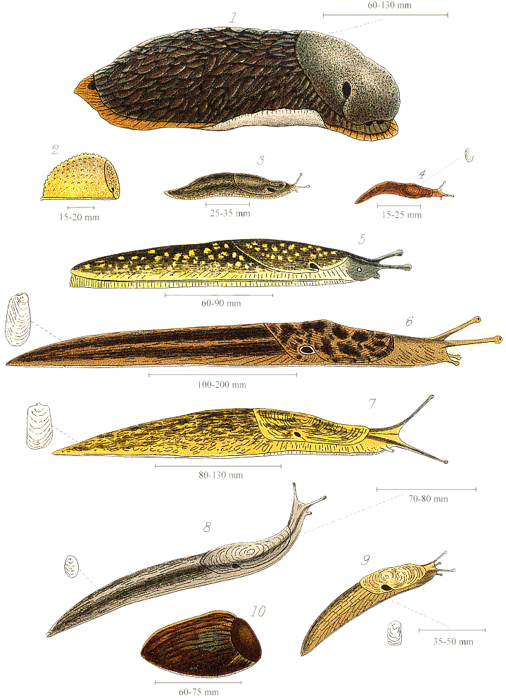 Plate with various land slugs